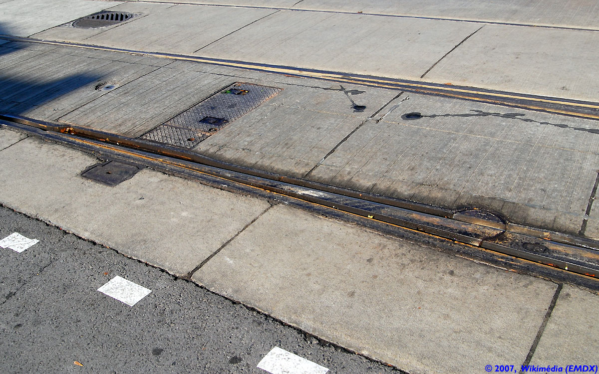 Single-point streetcar switch in Toronto, Canada, on the St. Clair line.